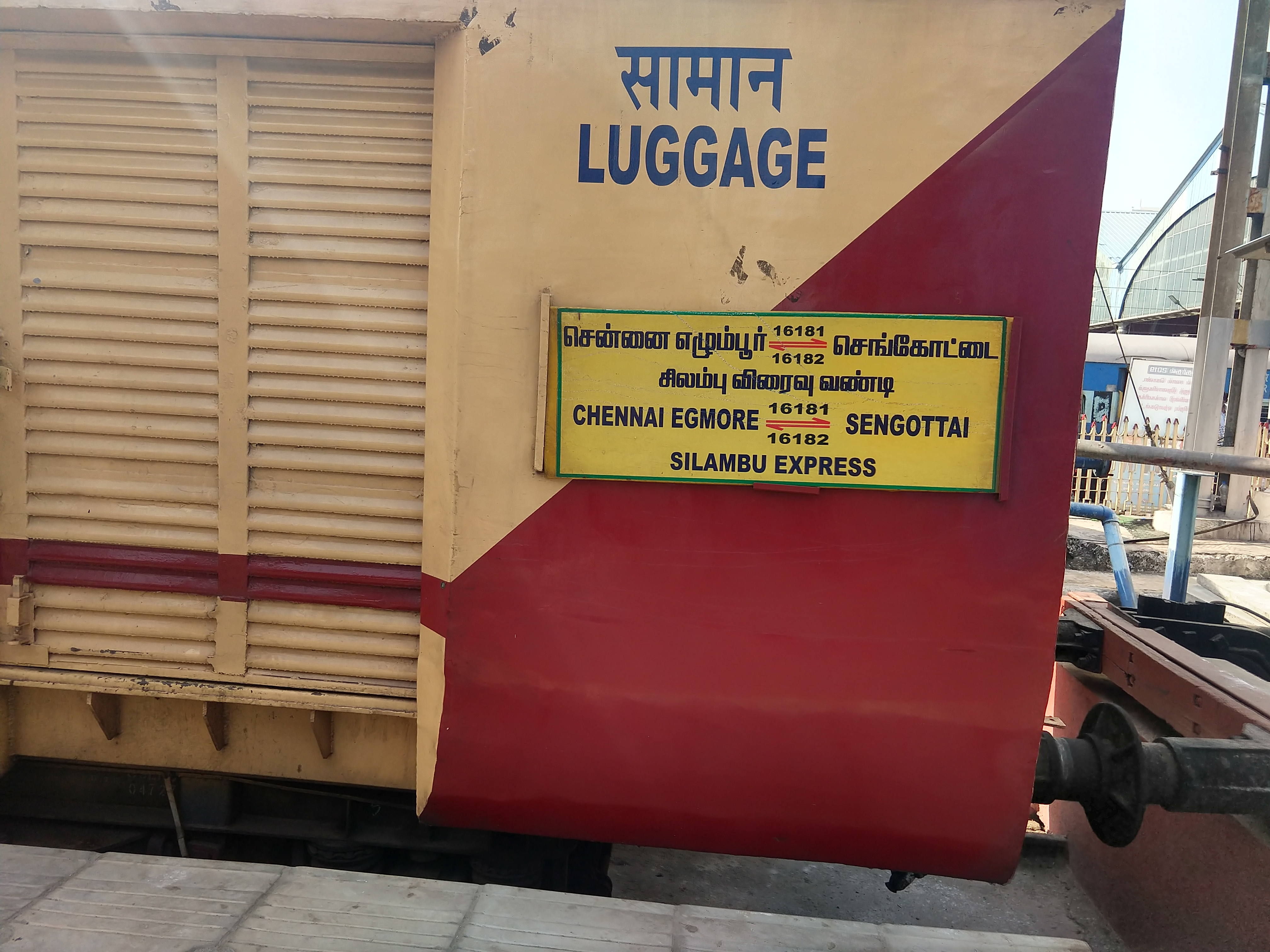 Name board of Silambu Express